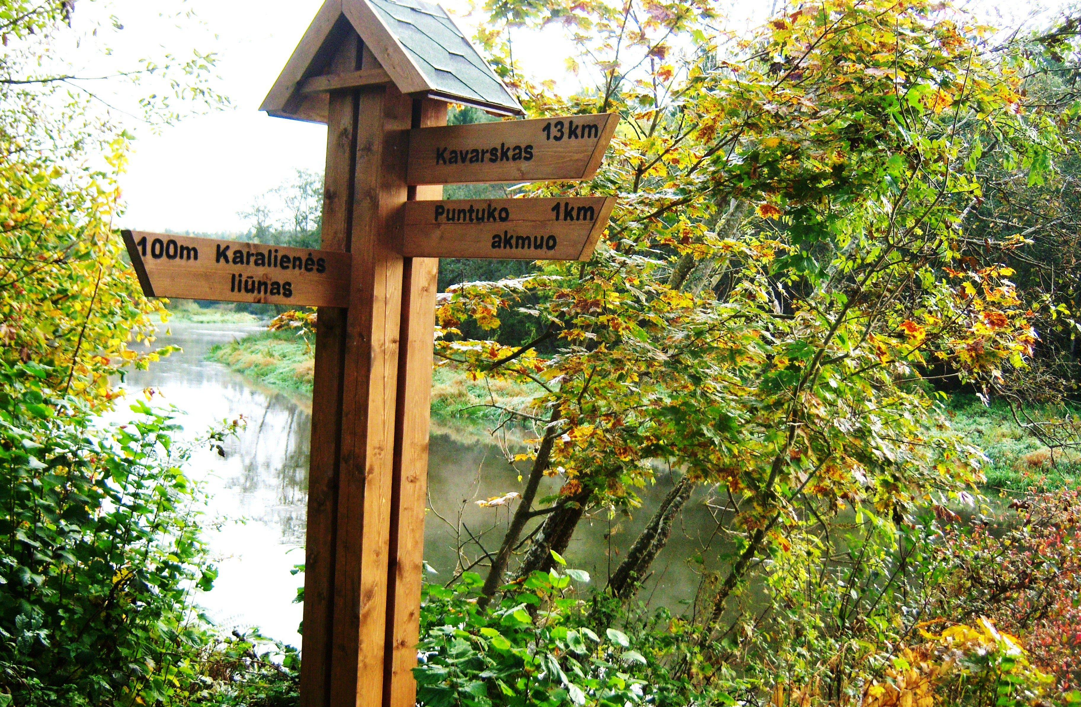 The Queen's Quagmire - just by the Šventoji River